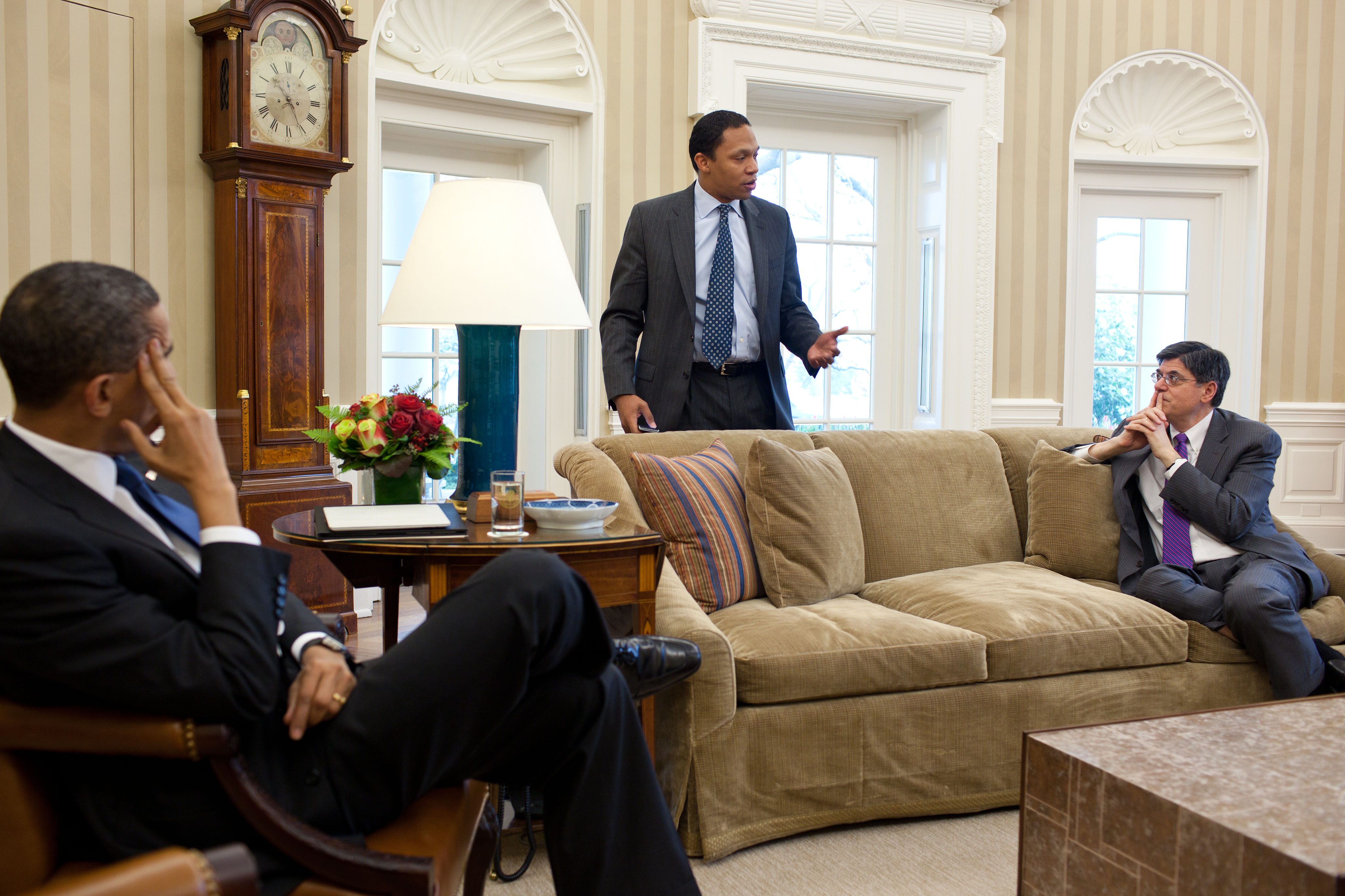 President Barack Obama meets with Rob Nabors, Assistant to the President for Legislative Affairs, and Office of Management and Budget Director Jack Lew, right, in the Oval Office to discuss the ongoing budget negotiations on a funding bill, April 8, 2011.